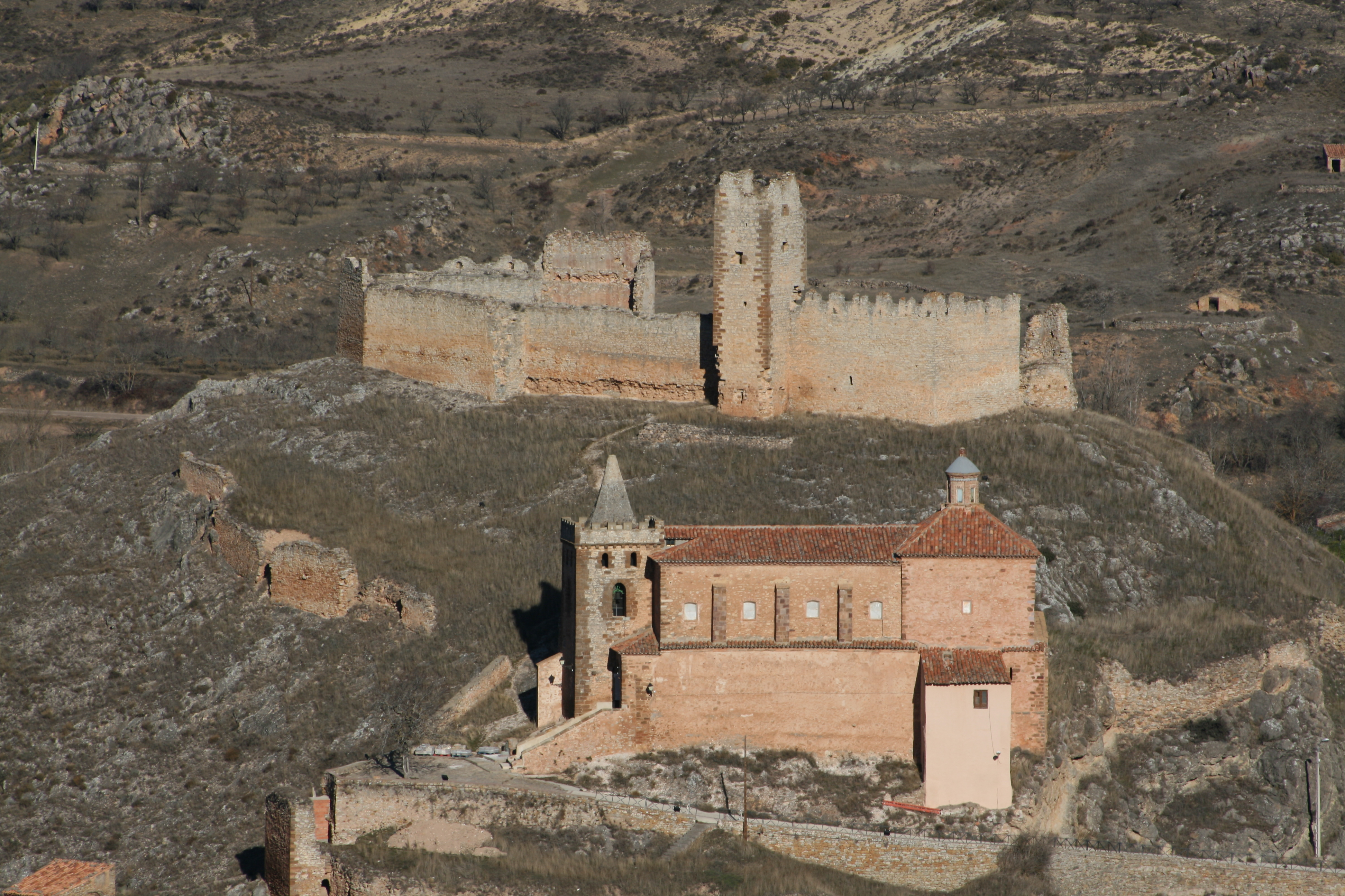 Hermitage of the Virgen del Castillo, Bijuesca, Spain